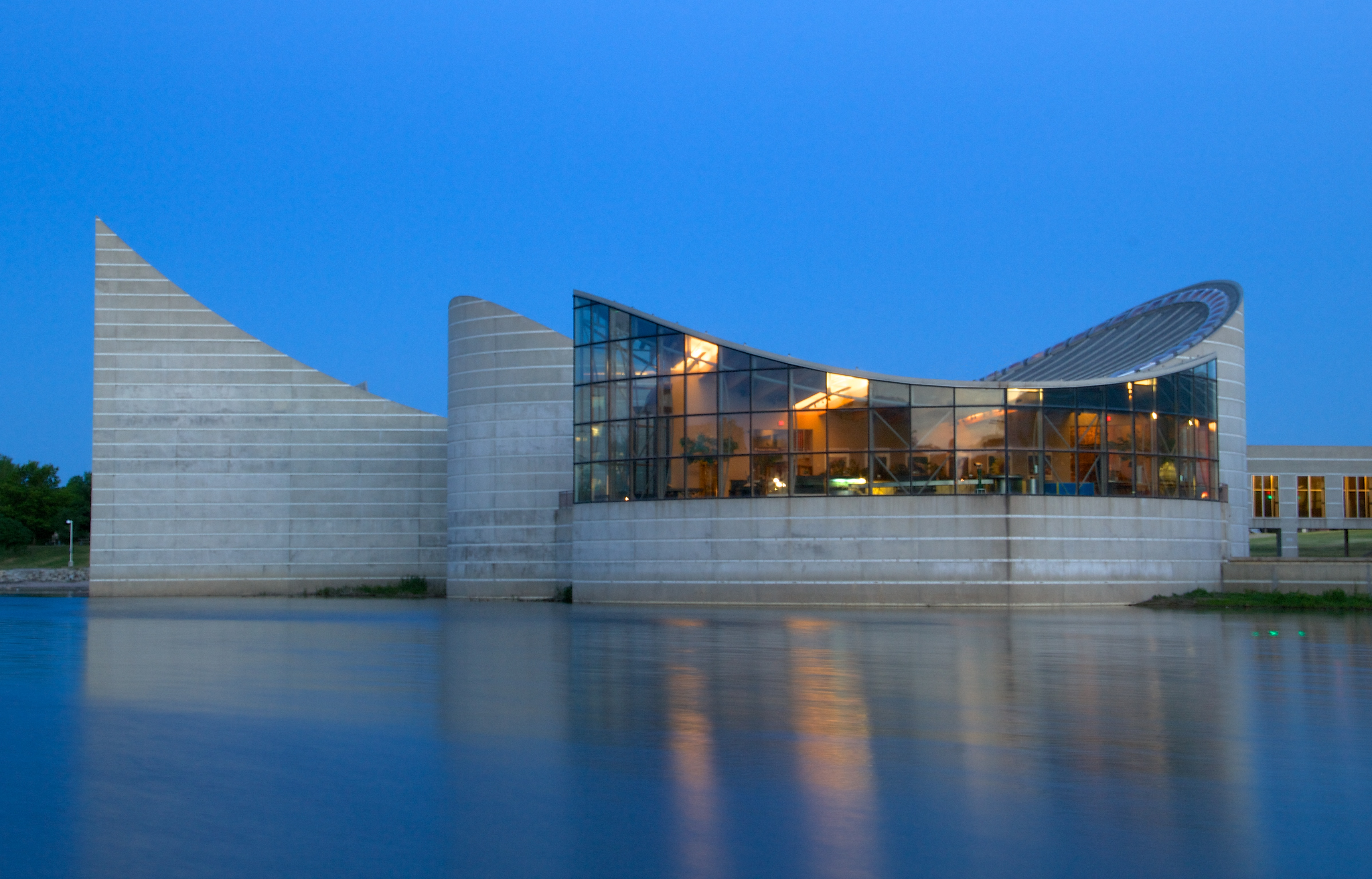 This is a photograph of The Exploration Place. The Exploration Place is located in Wichita, Kansas. This photograph was captured with a Canon EOS 60D on June 11, 2013.